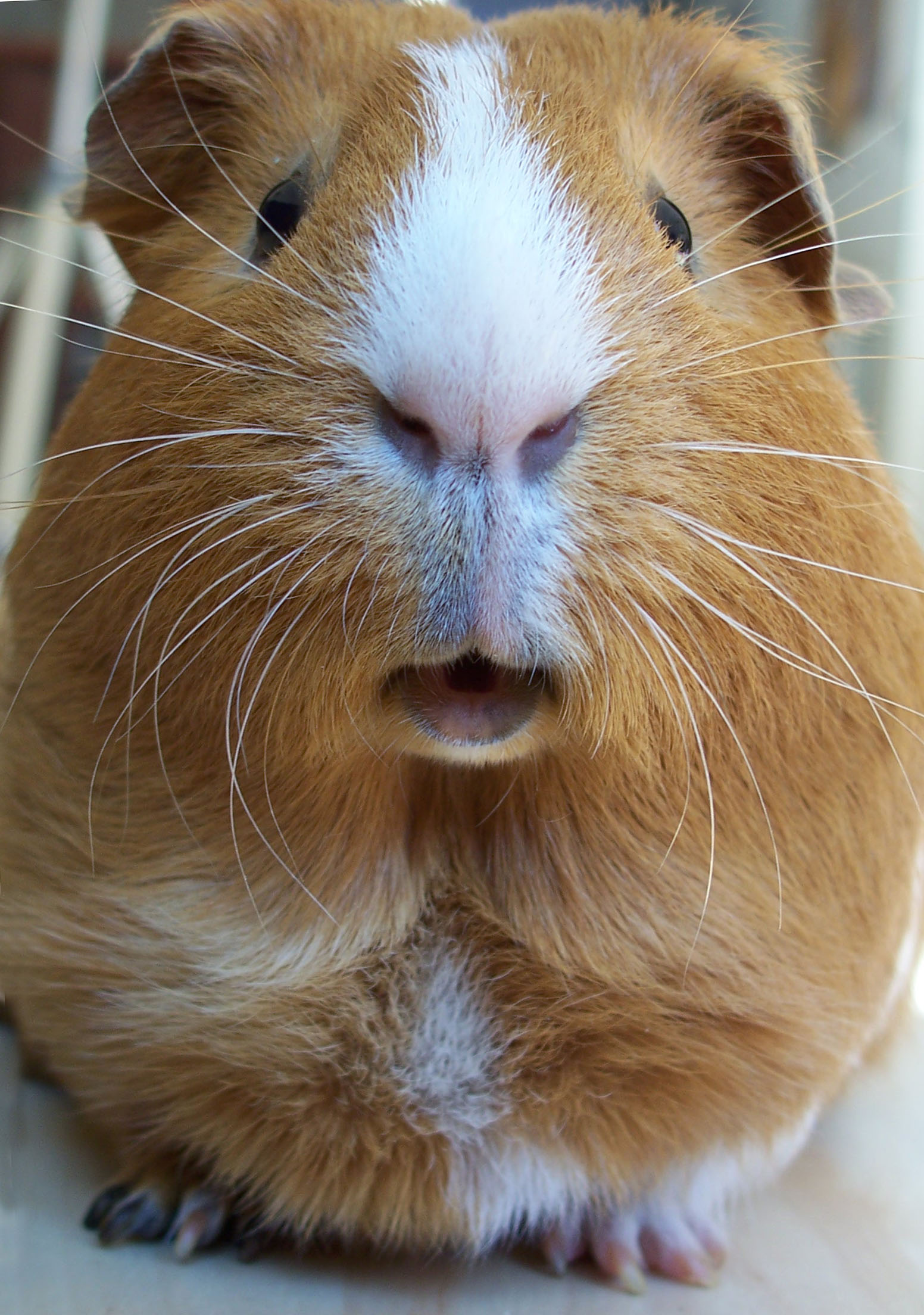 A picture of Joep the guinea pig (Cavia porcellus).